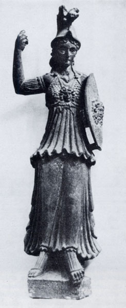 Basalt statue of the goddess Al-lāt-Minerva from As-Suwayda, Syria (National Museum of Damascus)